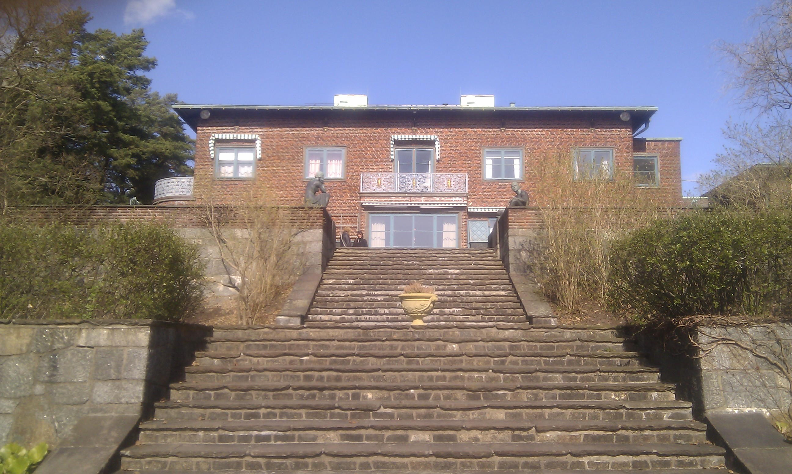 Villa Midtås in Sandefjord, Norway, residence og shipowner Anders Jahre